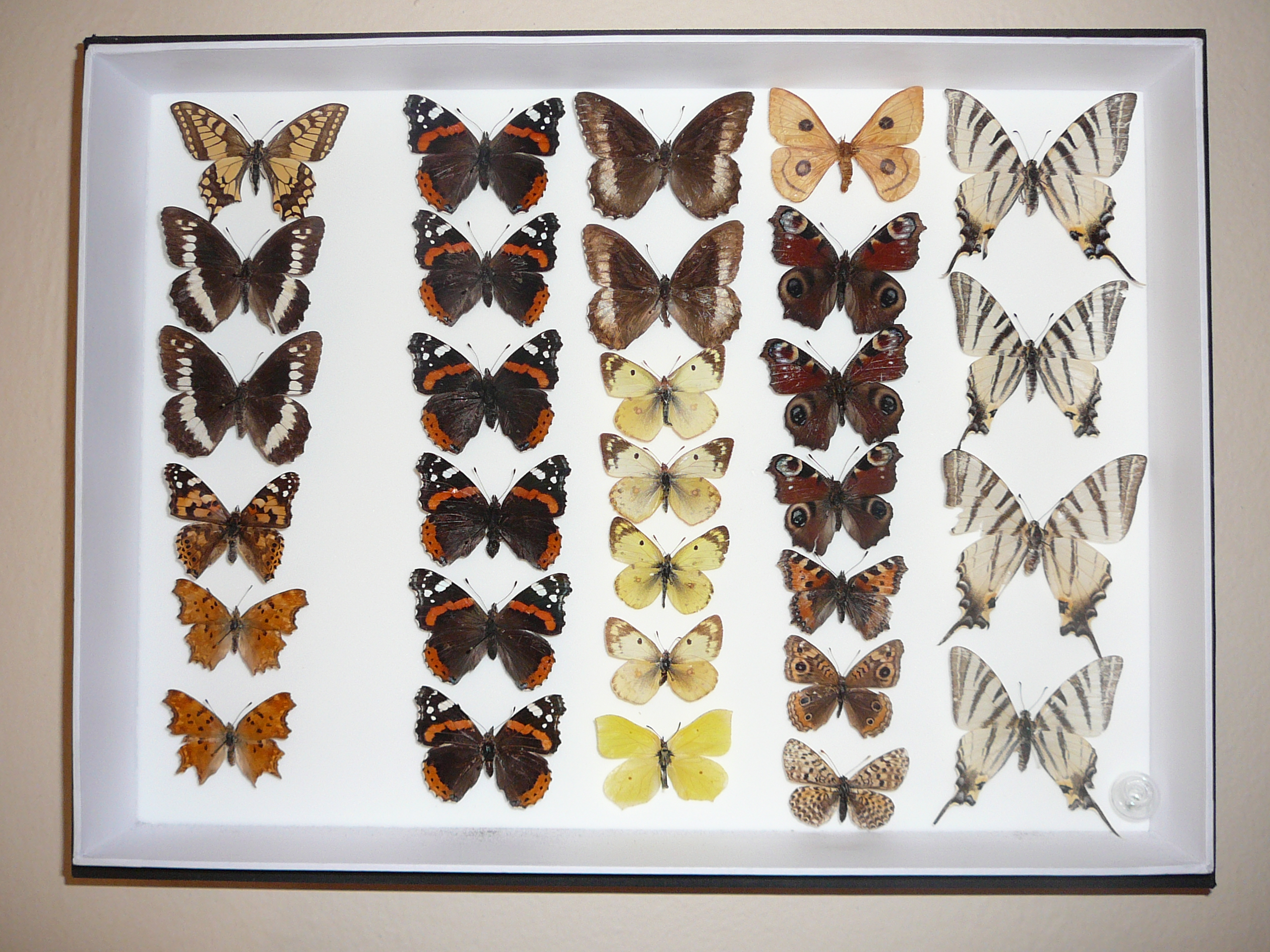 Butterfly collection